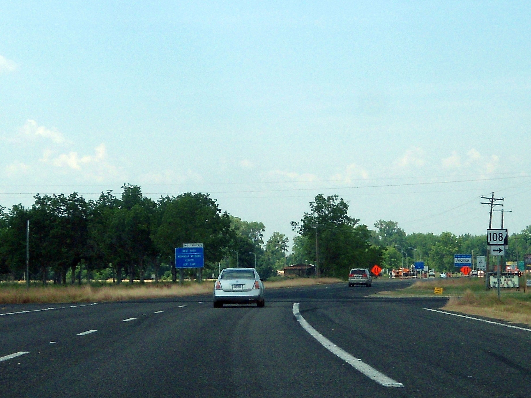 Western terminus of Highway 108 at US 59/US 71. This junction is actually in Texas, and Highway 108 runs for a few hundred feet before entering Arkansas. US 59/US 71 reenters Arkansas just north of this junction, the Arkansas welcome signs are visible in the background.